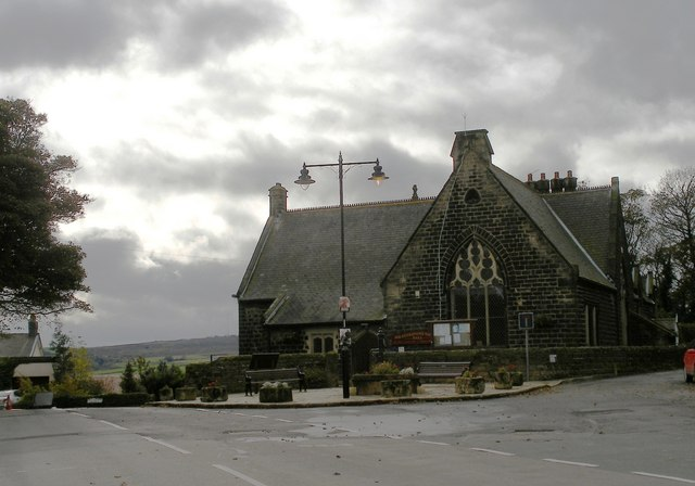 Bolsterstone Village Hall